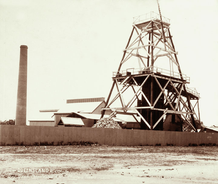 Day Dawn Consolidated Mine, Charters Towers.